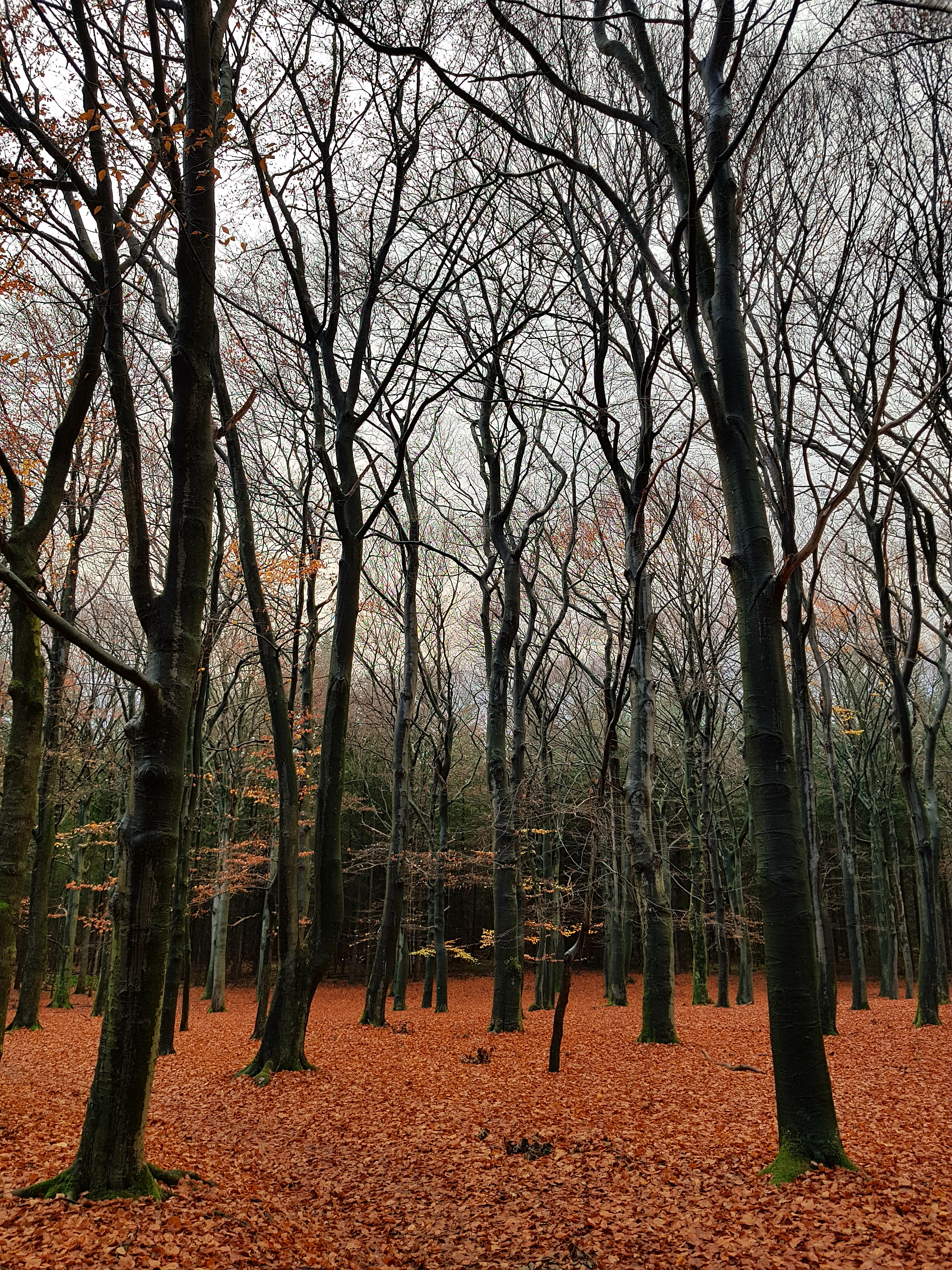 Beech trees in Henschoten (Netherlands), Autumn 2017 in Europe.